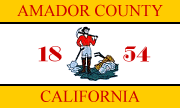 The official flag of Amador County, California.